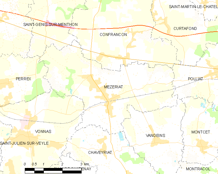 Map of French commune: Mézériat Map commune FR insee code 01246.png